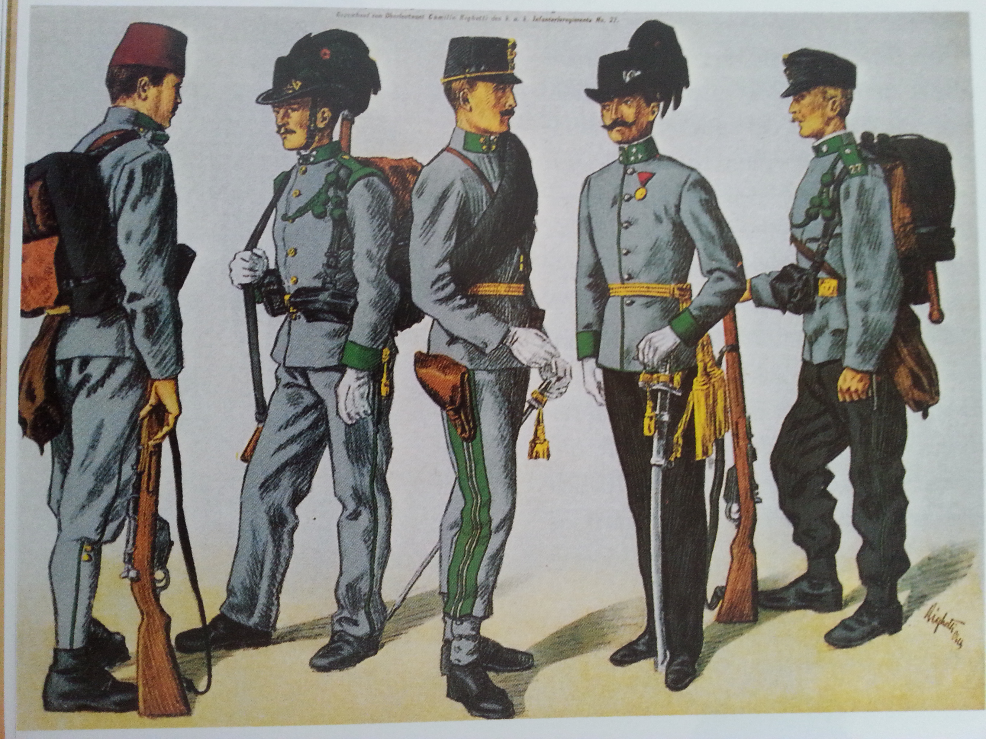 Colourplate k.k. Landwehruniforms past 1900, left: bosnisch-herzegowinischer Jäger, Unterjäger, Feldjäger-Oberleutnant, Landwehr-Hauptmann in Parade, Soldier k.k. Landwehr-Infanteriegiment Nr. 27.